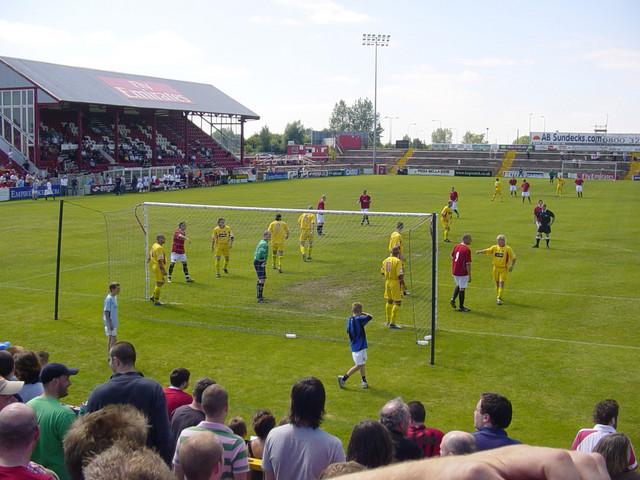 FC United vs Leigh RMI. Their first ever football match.